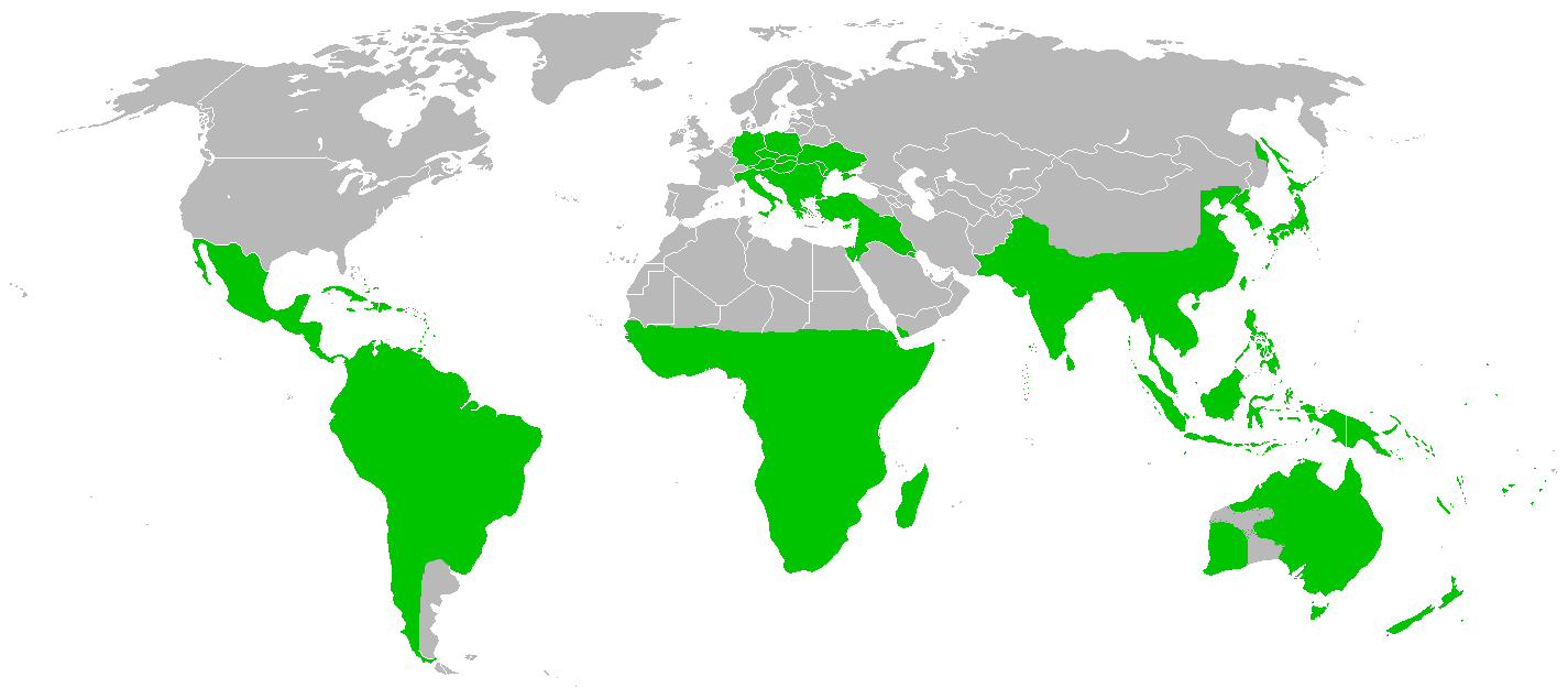 World distribution of Loranthaceae